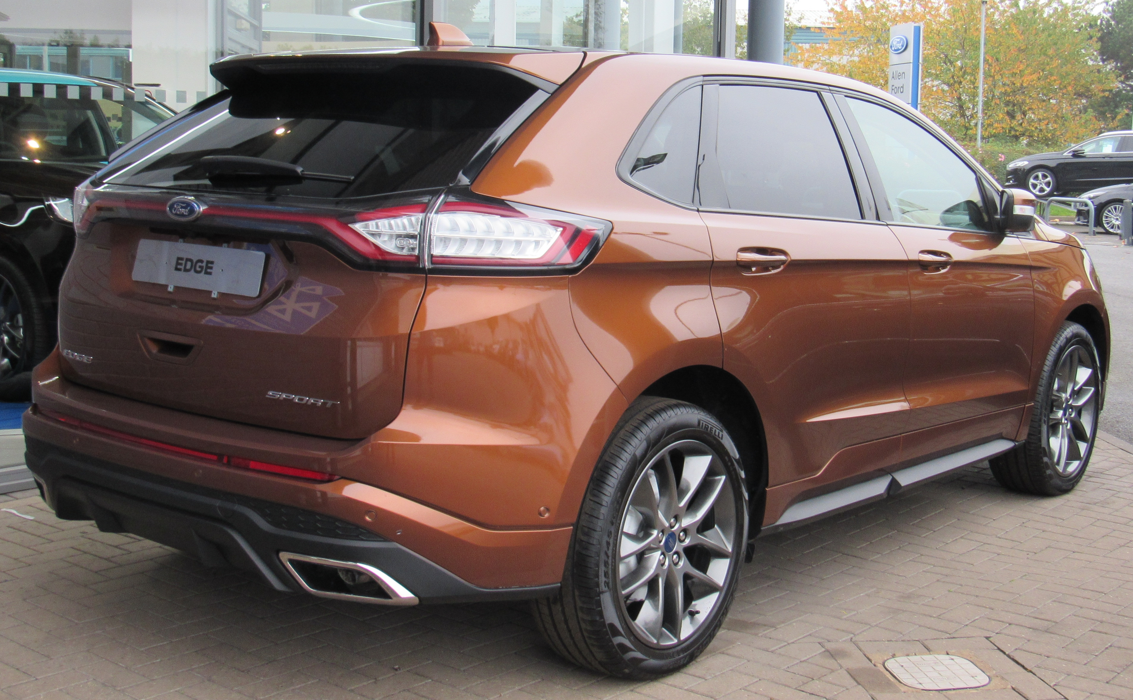 2017 Ford Edge Taken at Allen Ford Warwick, Leamington Spa